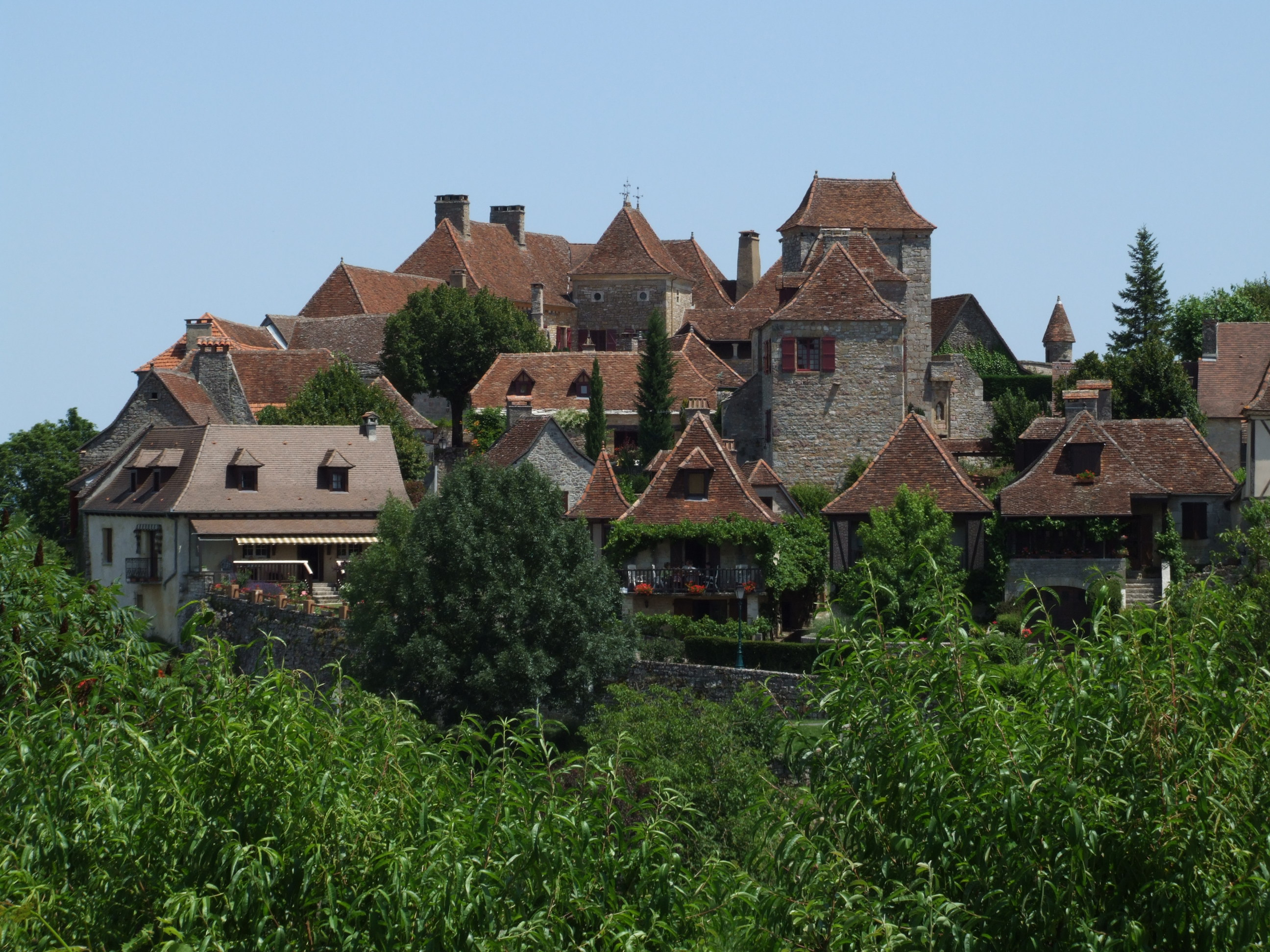 Loubressac, Lot, FRANCE